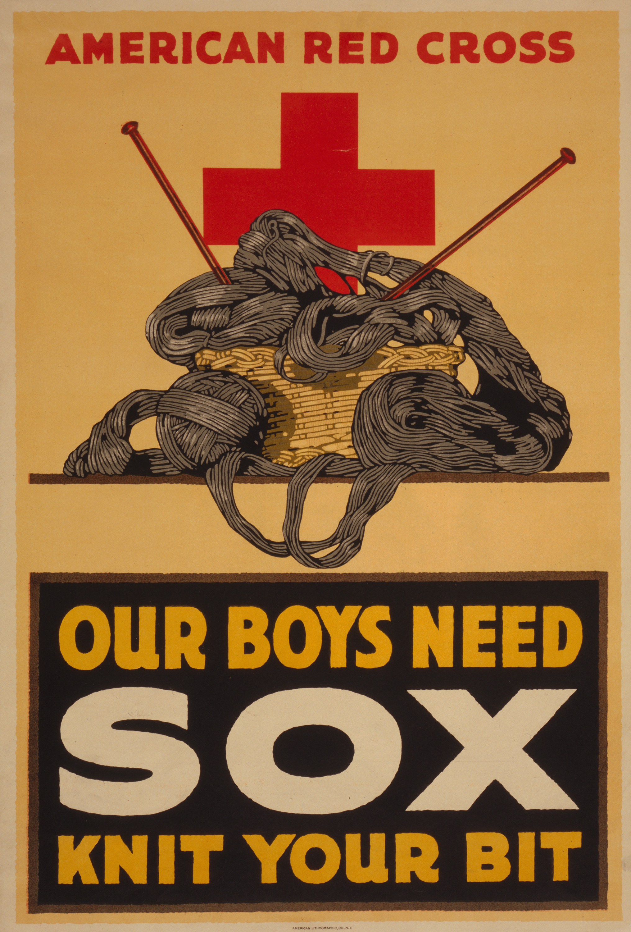 U.S. World War I poster: "Our boys need sox - knit your bit American Red Cross."